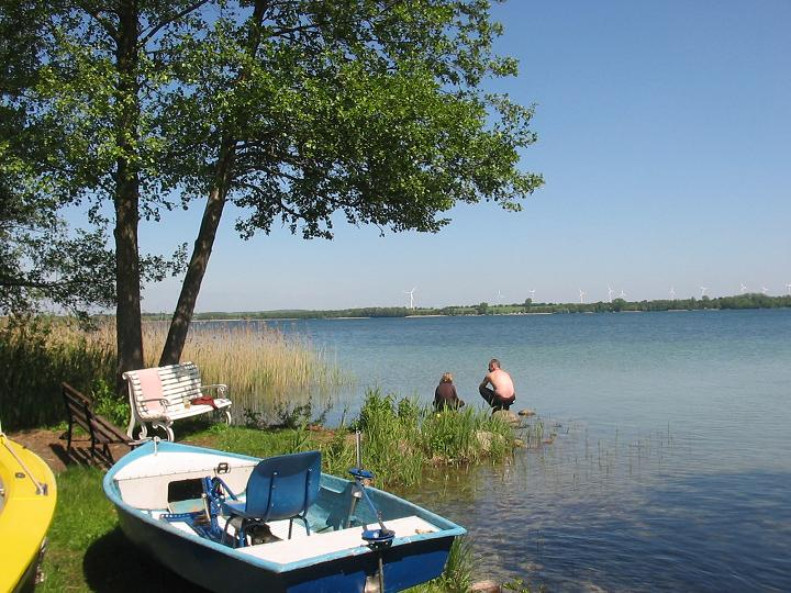 Parsteiner See nearby the peninsula Pehlitzwerder. The Parsteiner See is a finger lake (proglacial lake) in Germany, Brandenburg, District Barnim, and covers 10,03 km².